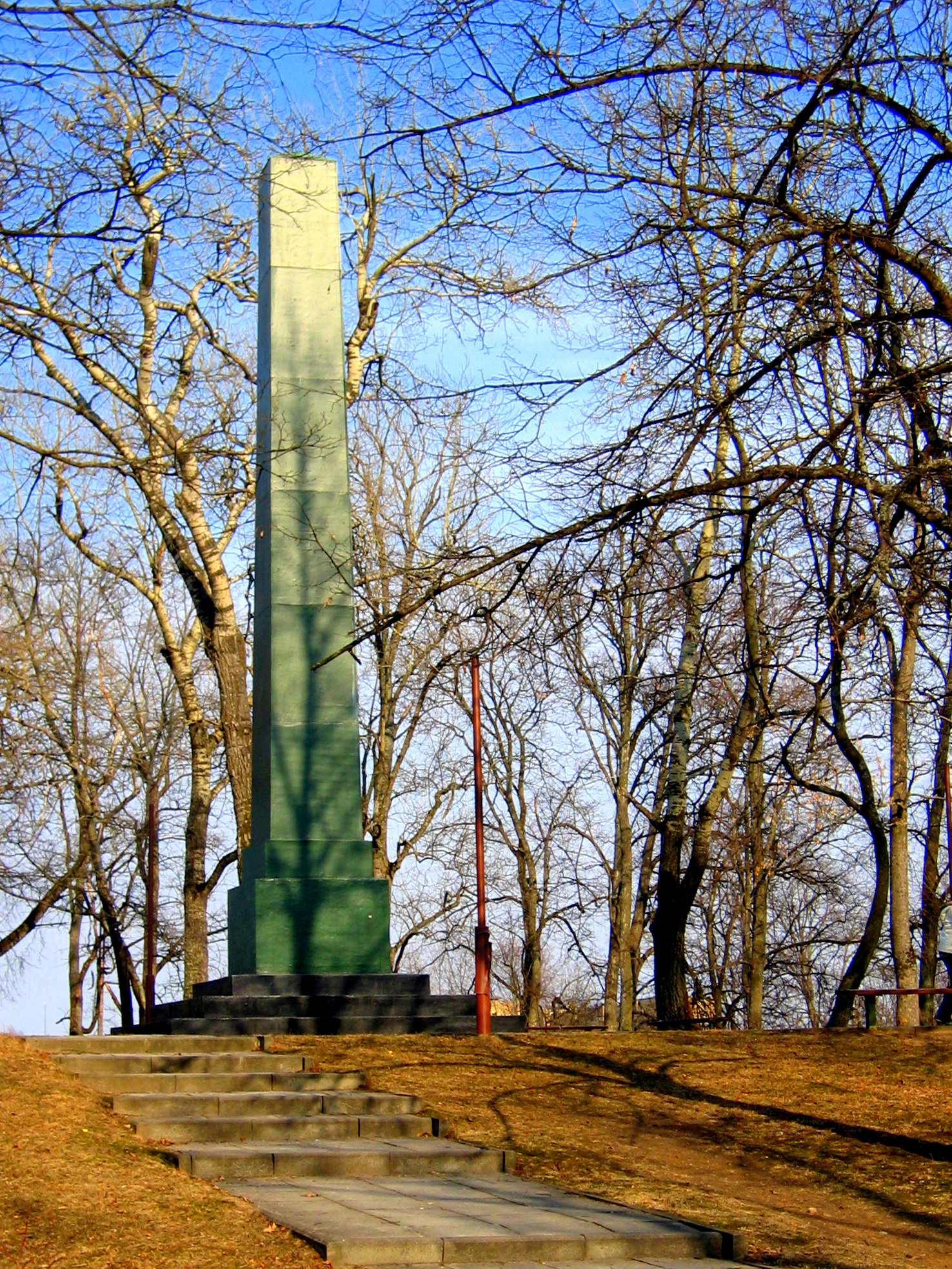 Monument commemorating the building of the road Suwalki-Zarasai